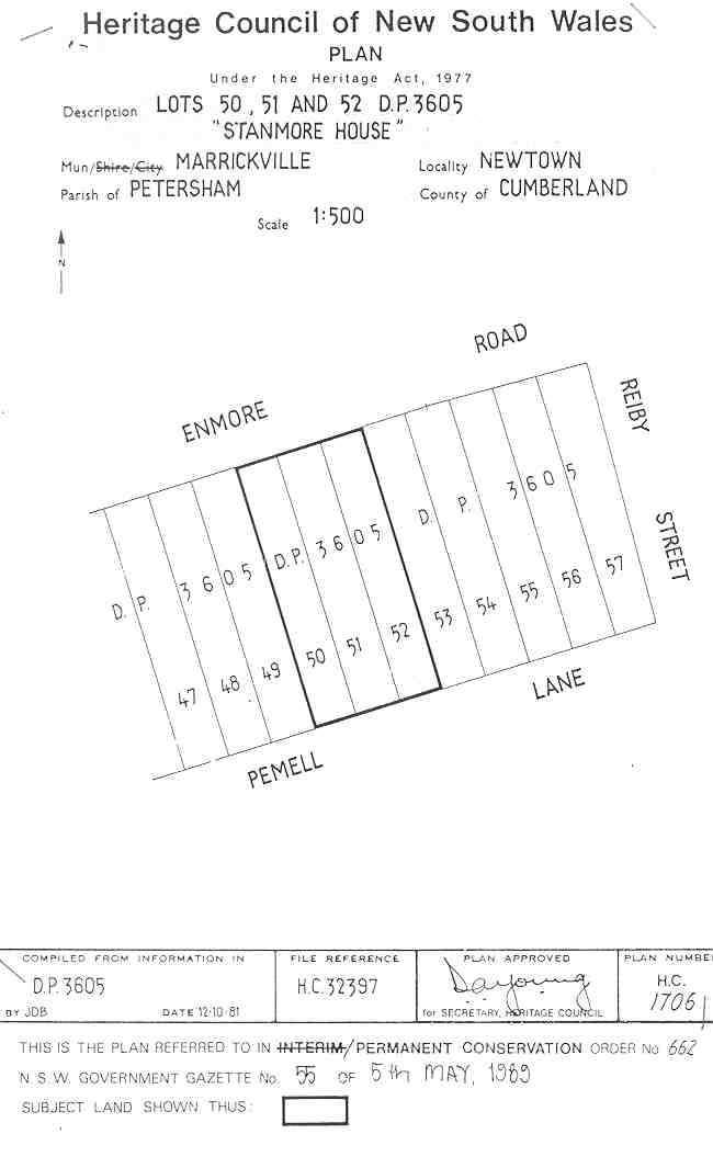 Stanmore House: PCO Plan Number 662